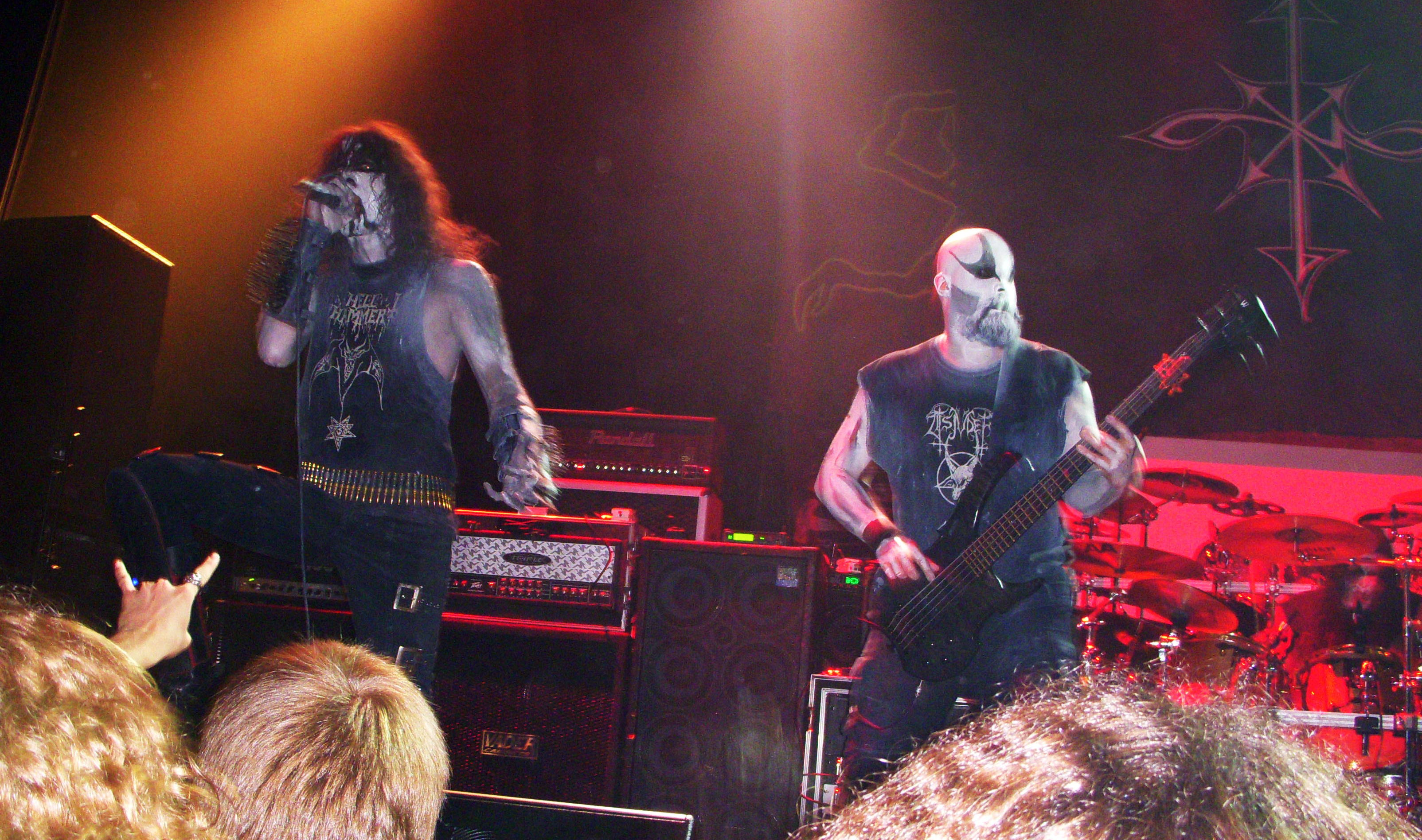 1349 live at Cathedral Hill, San Francisco